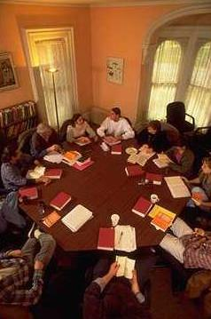 Discussion class at Shimer College, Waukegan, IL